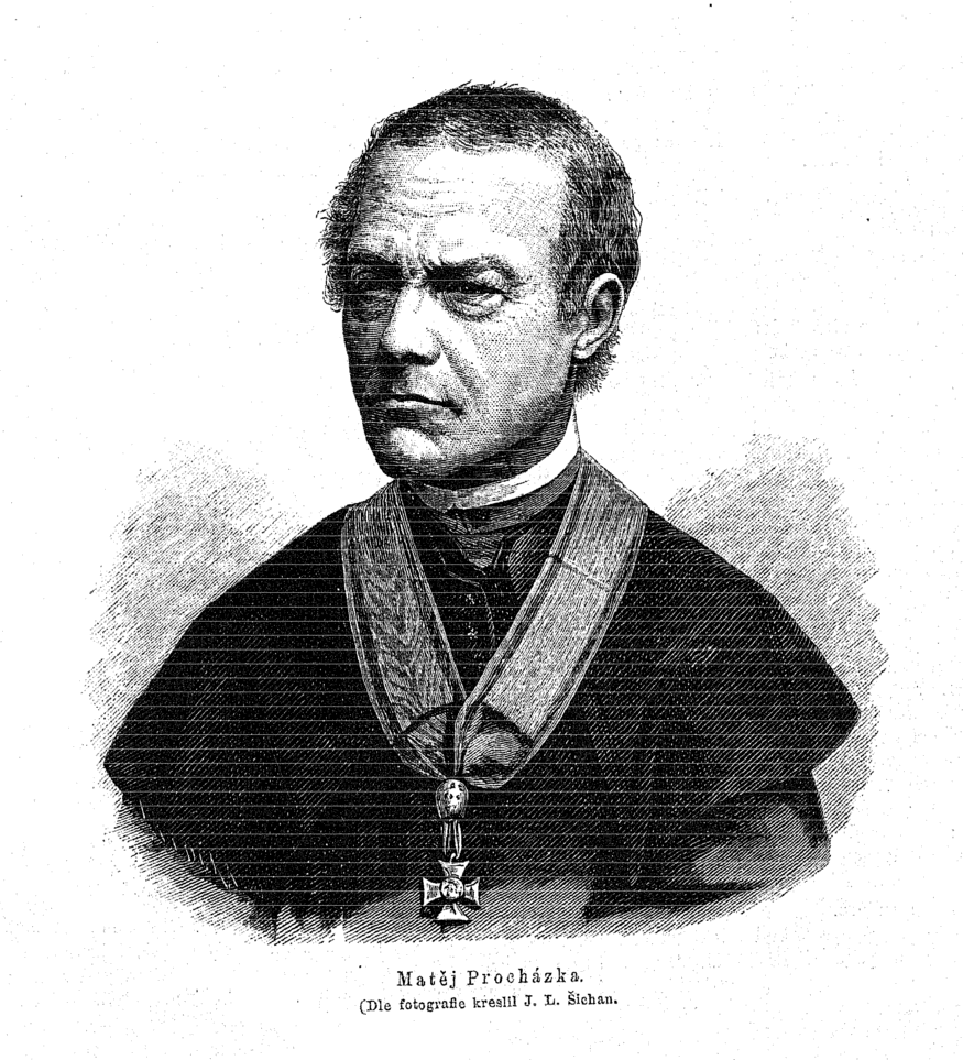 Portrait of Matěj Procházka (1811-1889), Czech Catholic priest in Moravia.